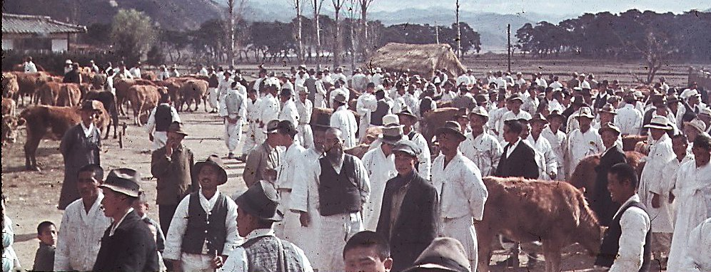 Korean Cattle Market. Taken somewhere outside Seoul during the fall of 1945. I hope someone will recognize the area.